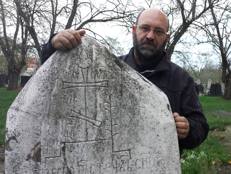 This is a photo I took of Dragoslav Bokan at the Despot Stefan Lazarević Memorial.